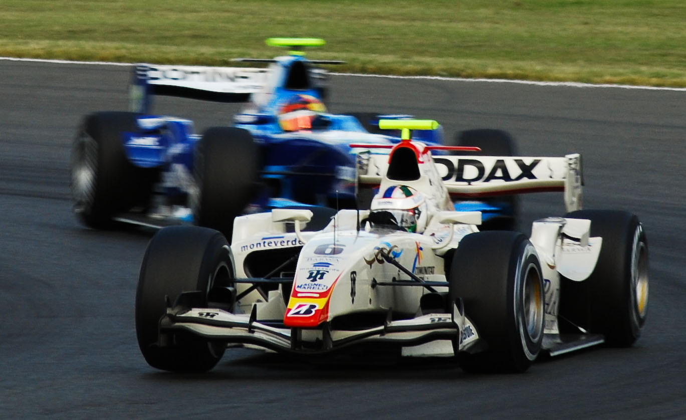 Lucas Di Grassi (Campos) and Pastor Maldonado (Piquet Sports) at the Silverstone round of the 2008 GP2 Series season.